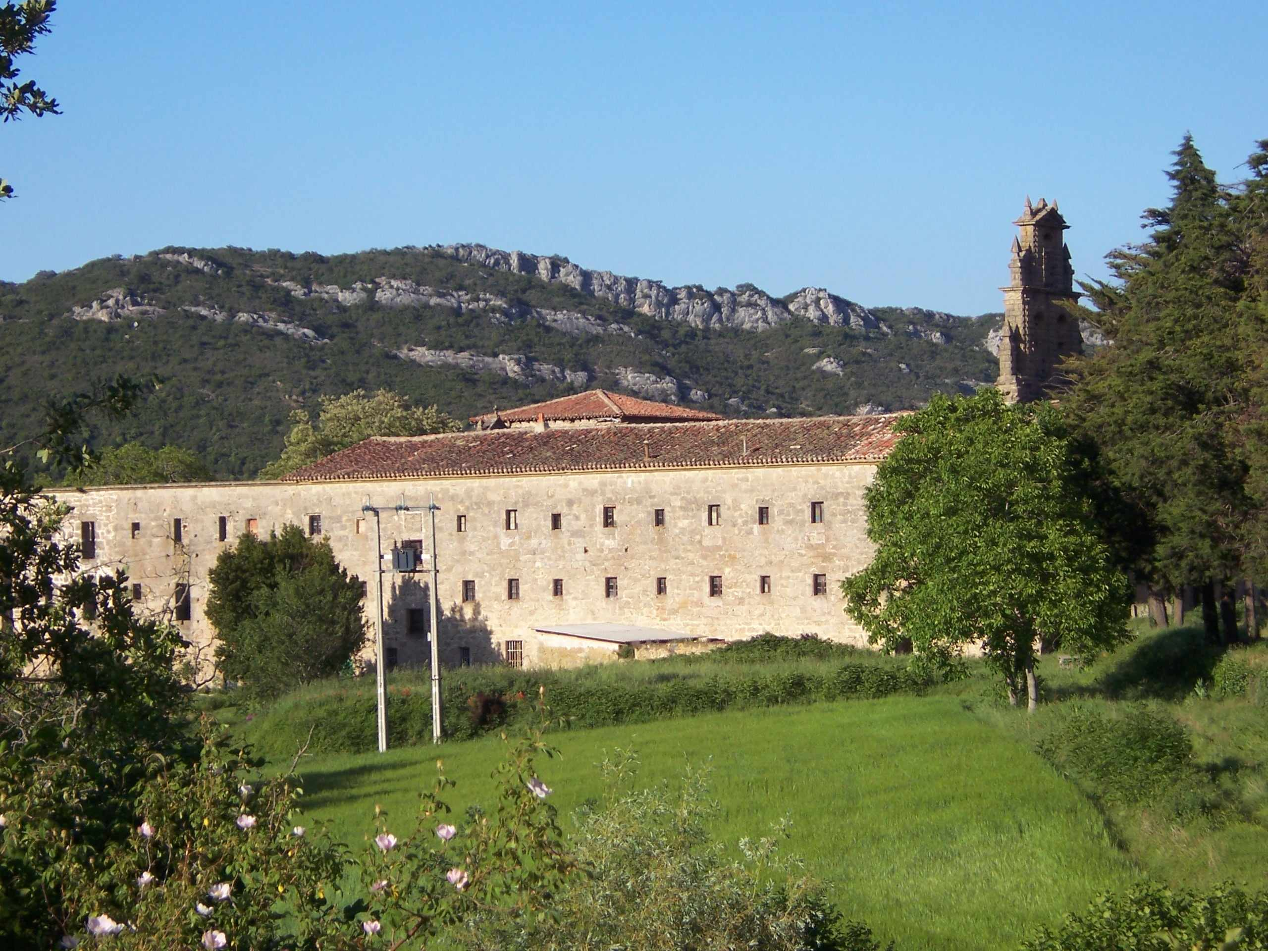 Main building of the Monastery of Herrera in the province of Burgos. Spain